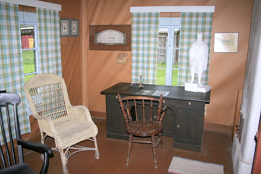 Johannes Linnankoski's workshop There is a home museum in Askola in southern Finland for the Finnish writer Johannes Linnankoski, who became famous in the beginning of the 20th century.